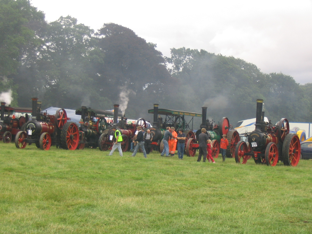 Taken August 2005 at the Stradbally Steam Rally